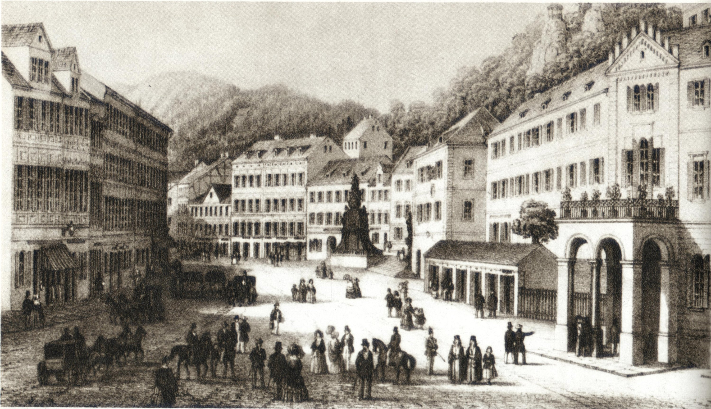 Marktplatz in Karlsbad. Litography by C. Waage in "Album von Karlsbad", around 1850.